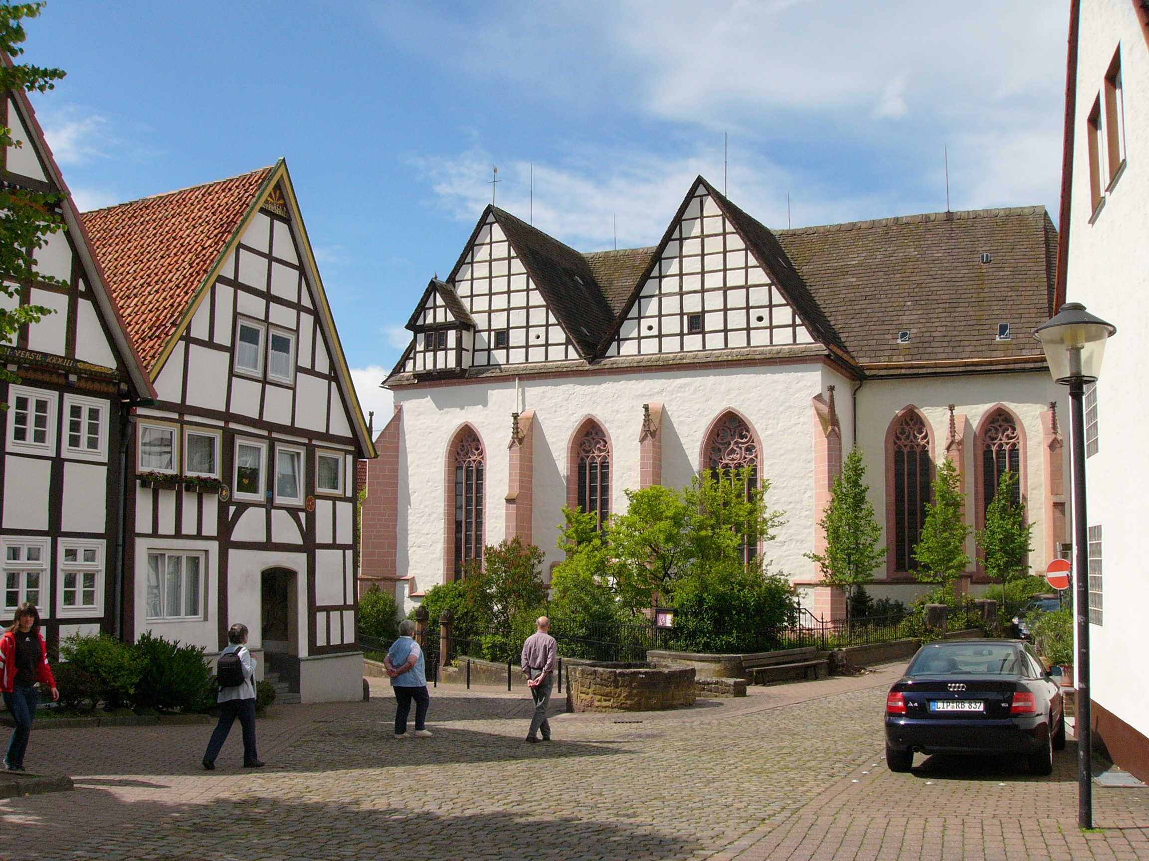 Minster in Blomberg, Germany